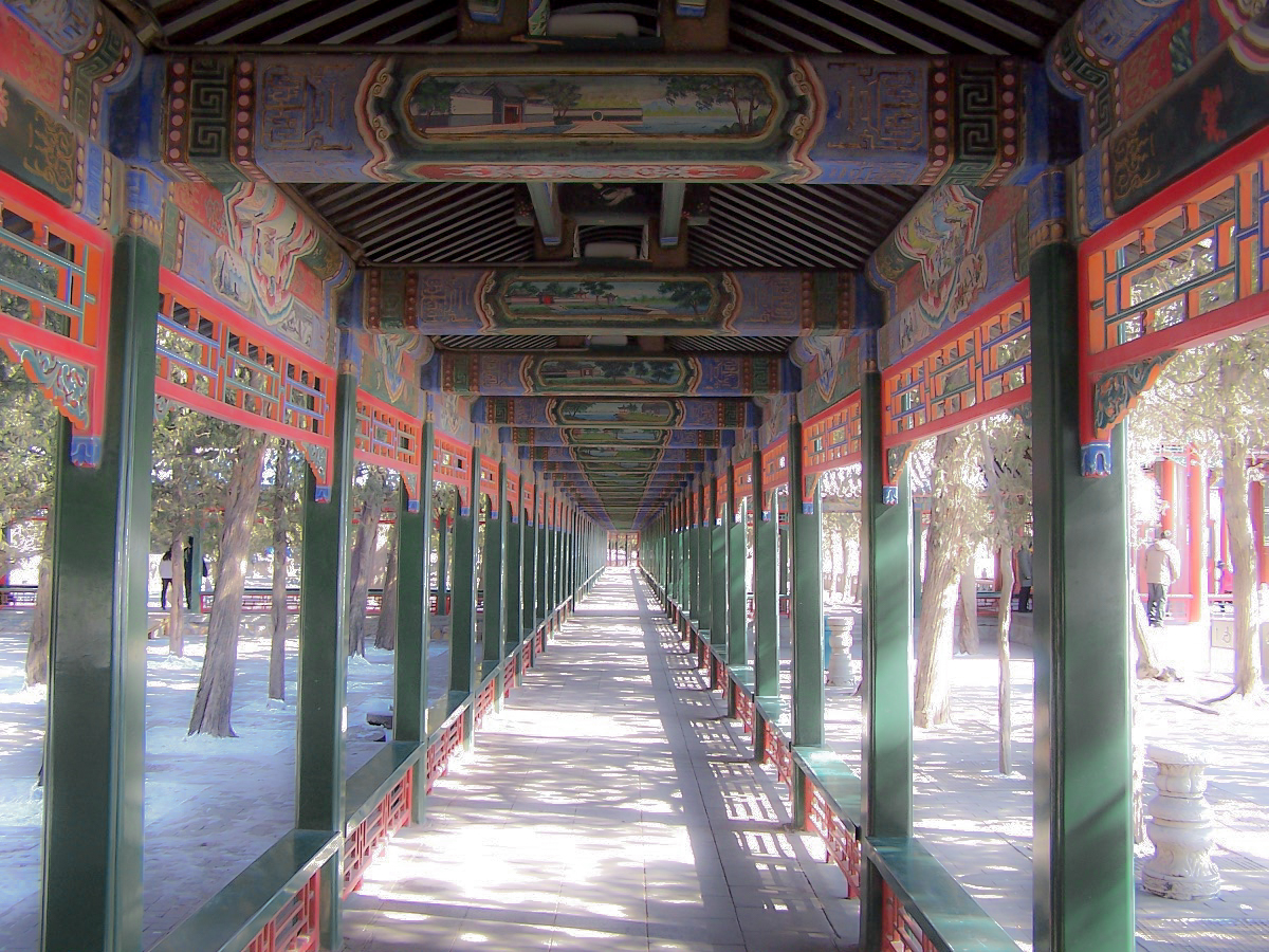 Summer Palace at Beijing, China